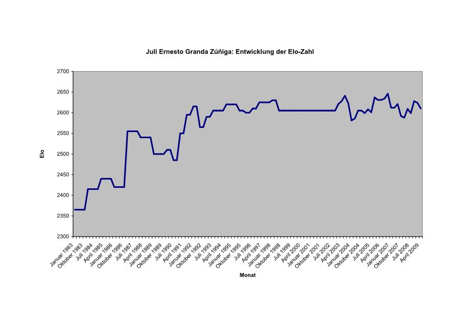 Development of the ELO development of Peruvian chess Grandmaster Julio Ernest Granda Zuniga from January 1983 to April 2009. Language: German.